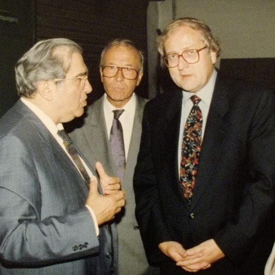 Günter Felke in conversation with Minister of Economics Rainer Brüderle at a factory tour in 1993